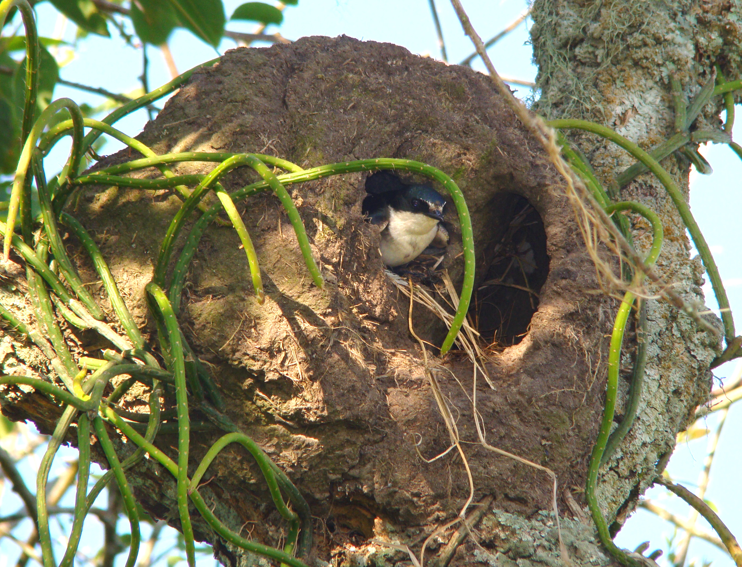 Tachycineta leucorrhoa photographed in Rio Grande do Sul, Brazil, in November 2009, using a old nest abandoned by Furnarius rufus .